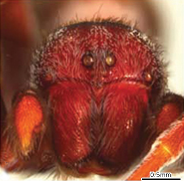 Frontal view of the arachnid Paradonea presleyi. This specimen is from Falcon College, Zimbabwe (CASENT 9039236, CAS). Taken from Miller J, Griswold C, Scharff N, Řezáč M, Szűts T, Marhabaie M (2012) The velvet spiders: an atlas of the Eresidae (Arachnida, Araneae), Figure 7(I). Modified to remove the letter "I" and make scale marker visible.